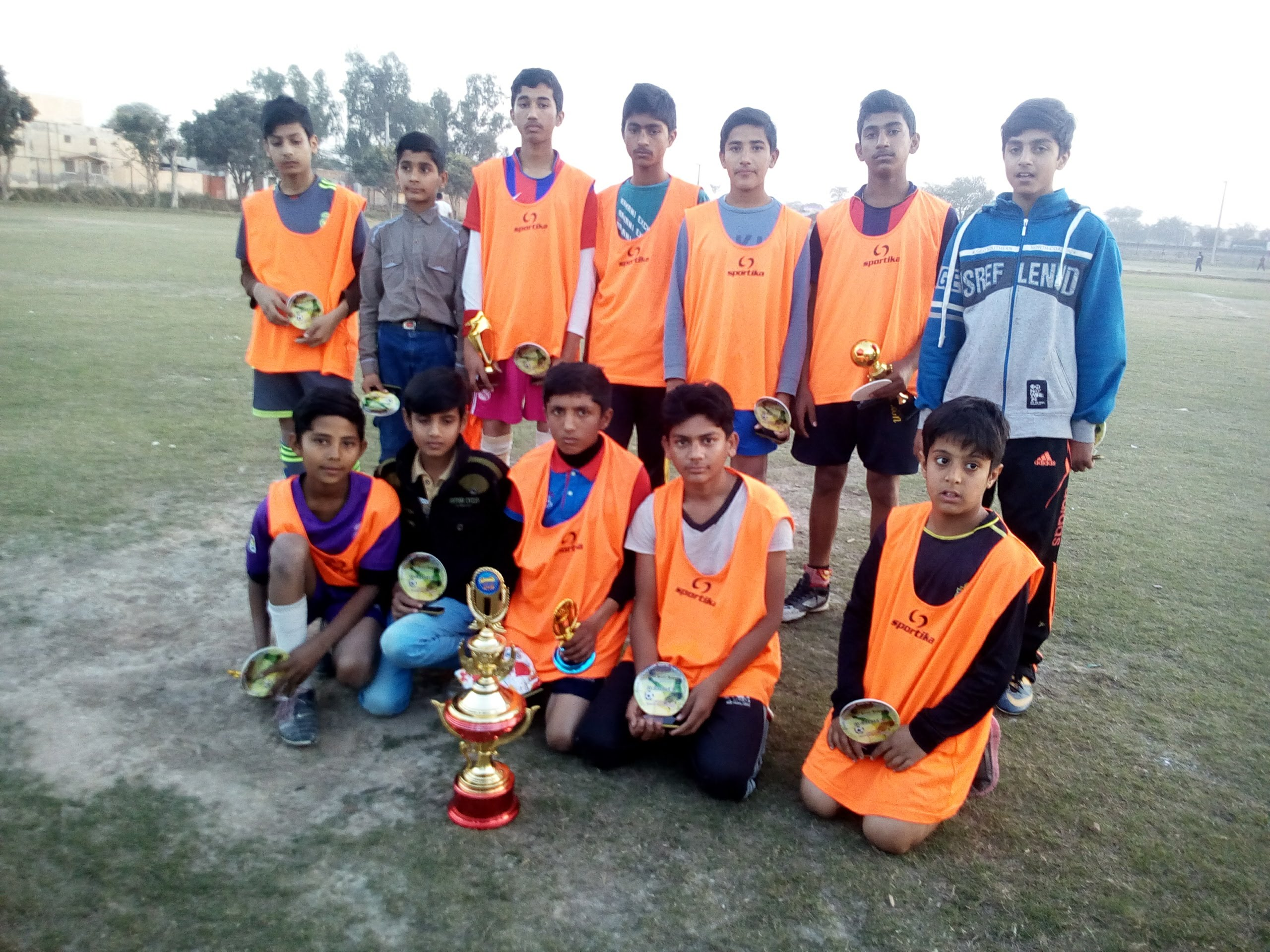 Yaman Soccer League winner team photo after prize distribution ceremony